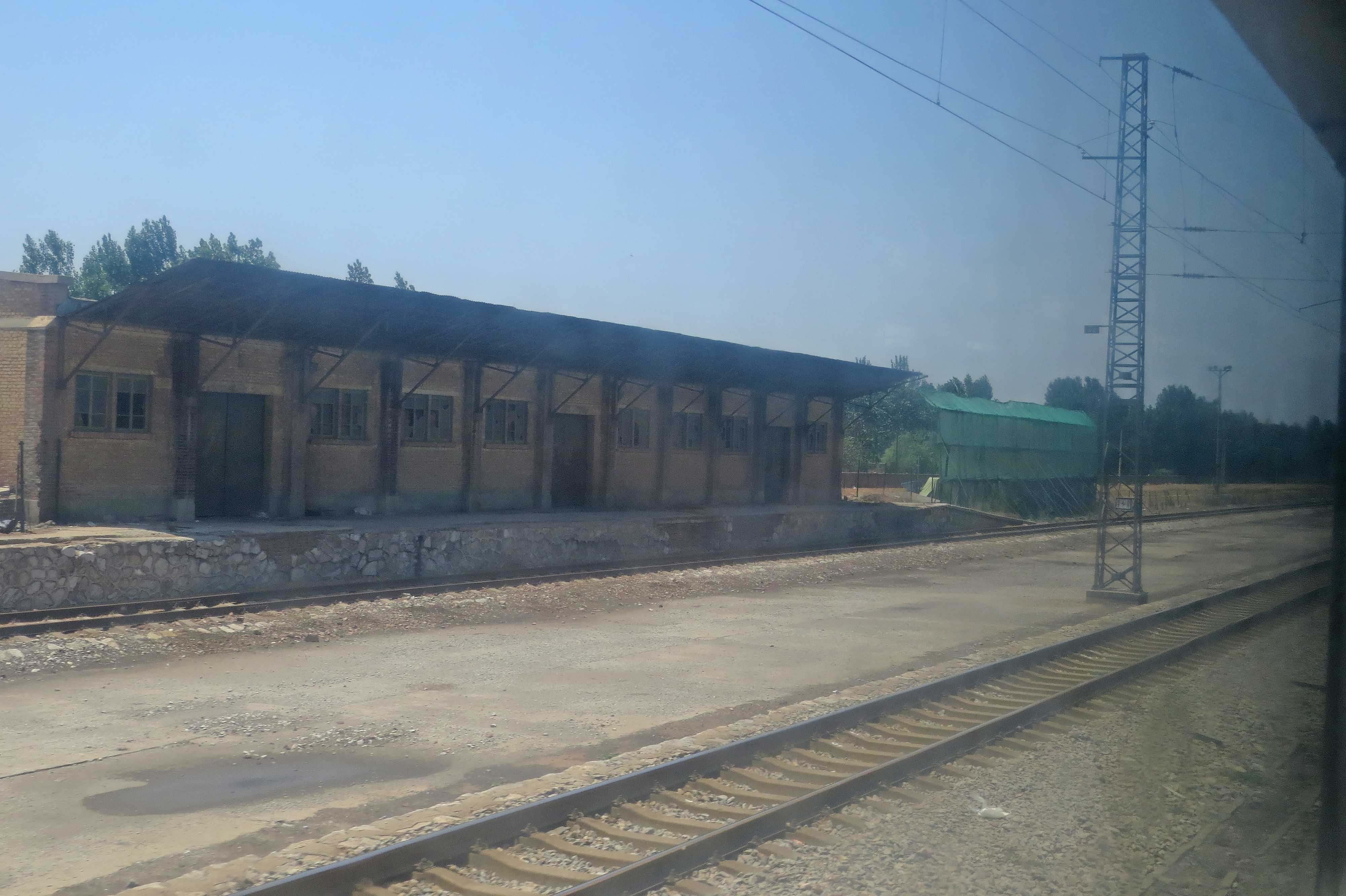 Kingswell? Royalwell? Taken from 4481.